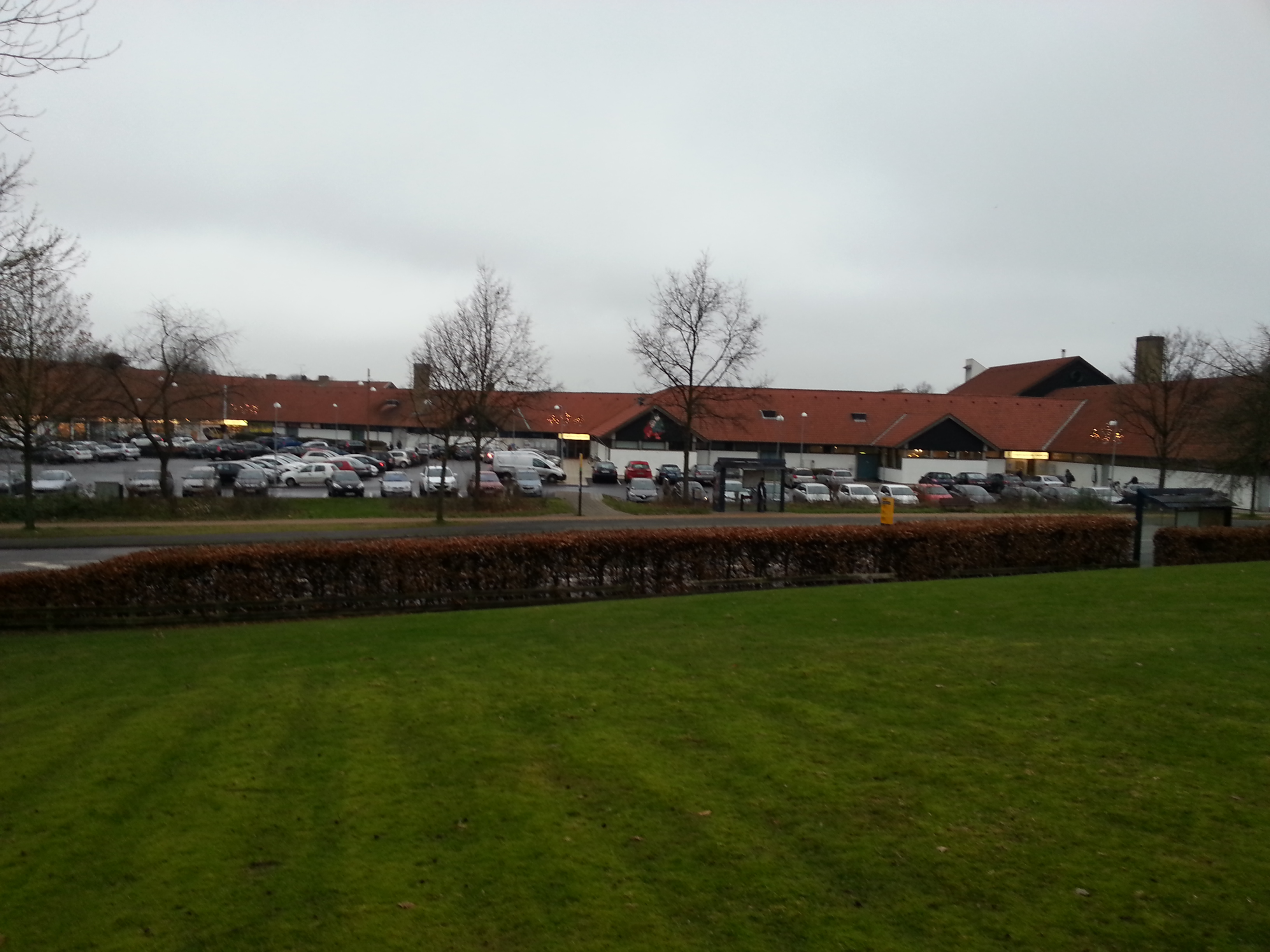 Espergærde Centret 16.12.2015 - 1